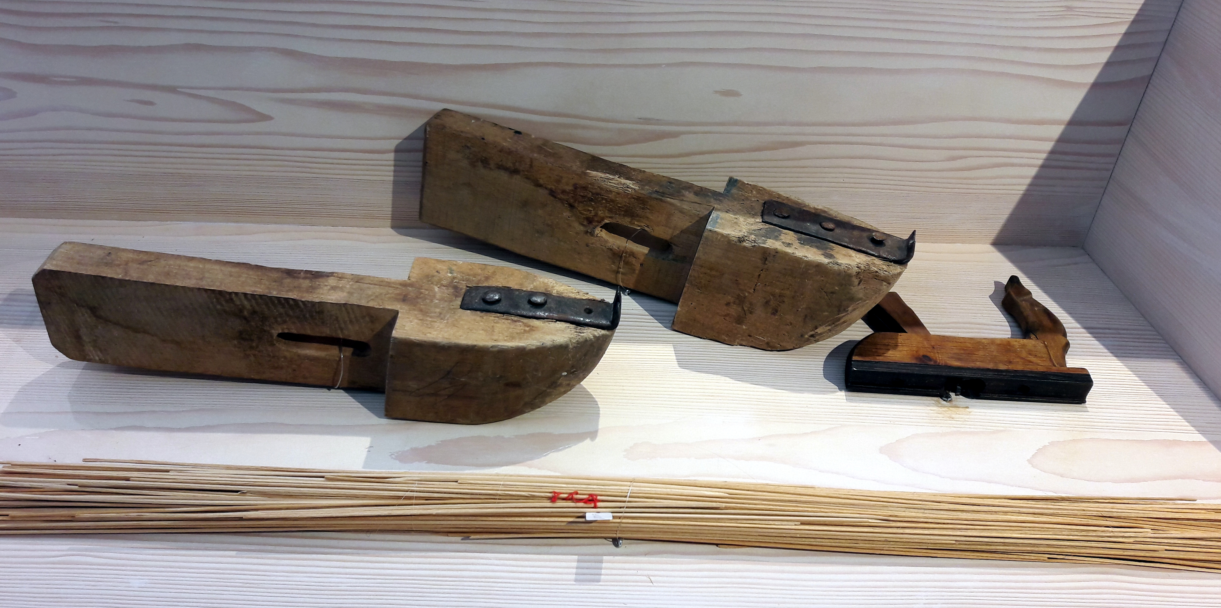 Zwiesel ( Lower Bavaria ). Forest museum - Tools for the production of wooden wire